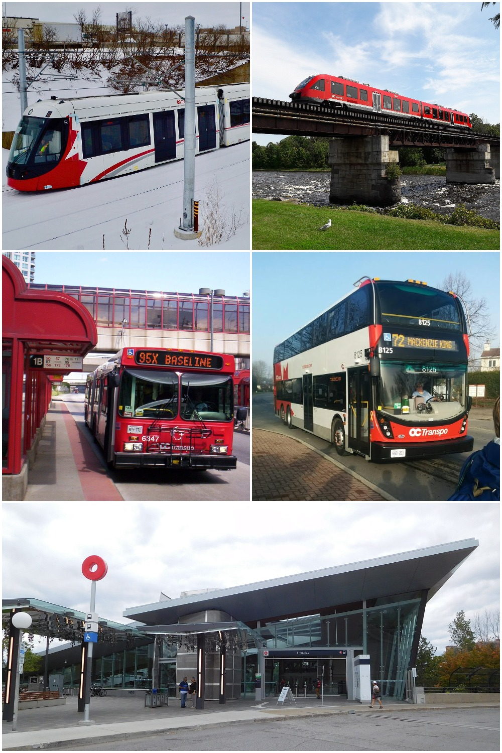 Montage of 2020 OC Transpo services using these sources: File:Confederation Line train testing near St. Laurent station, January 2018.jpg, File:Trillium Line across Rideau River, Ottawa, Aug 2017,.jpg, File:Westboro trstwy.jpg, File:Octranspo double decker bus route 72.jpg, File:Tremblay - 14.jpg